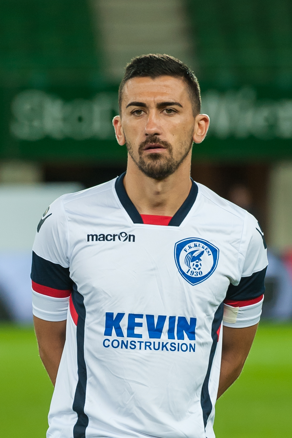 UEFA Europa League - FK Austria Wien vs FK Kukesi, 2016-07-14.